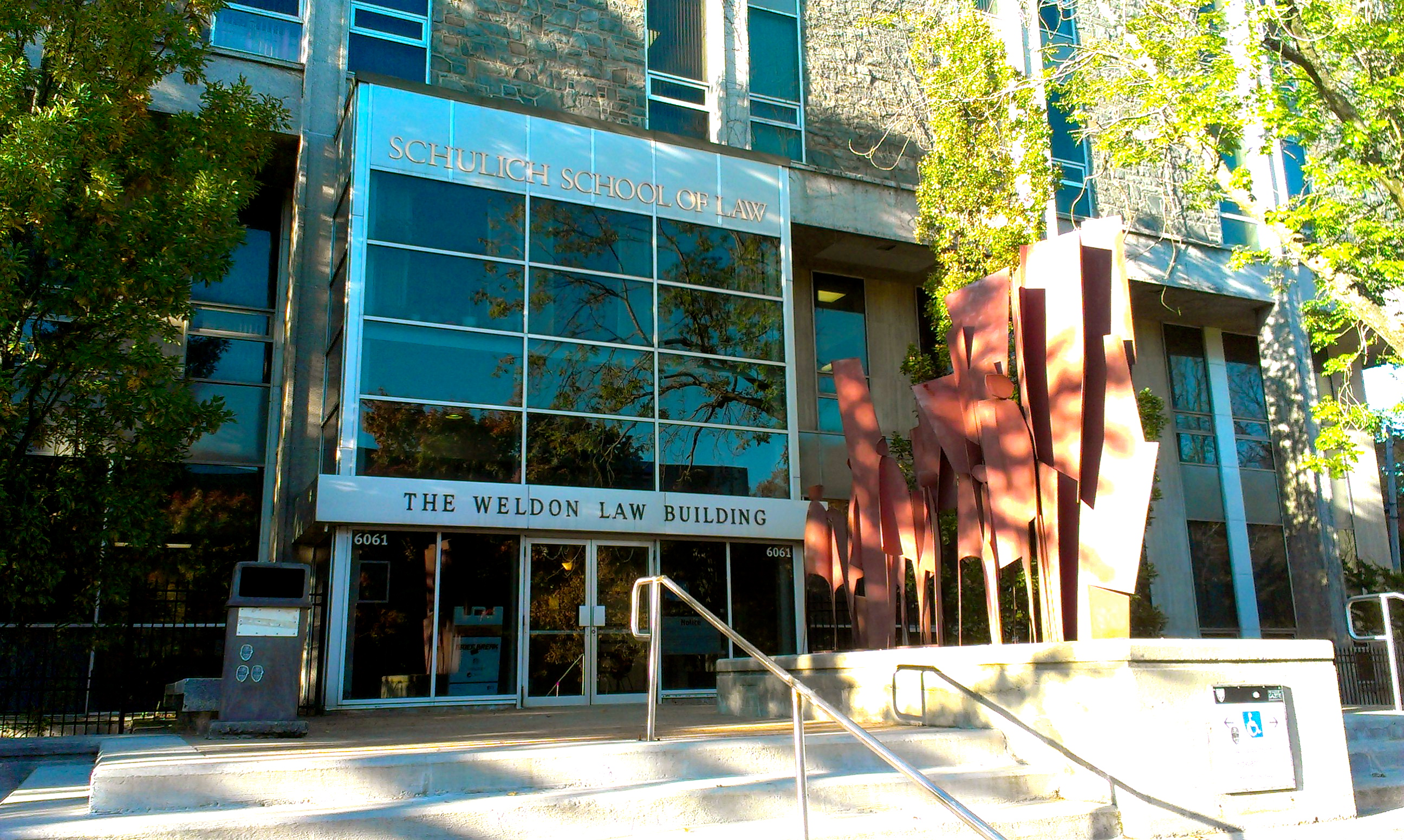 A photograph of the Weldon Law Building, home to the Dalhousie University Schulich School of Law